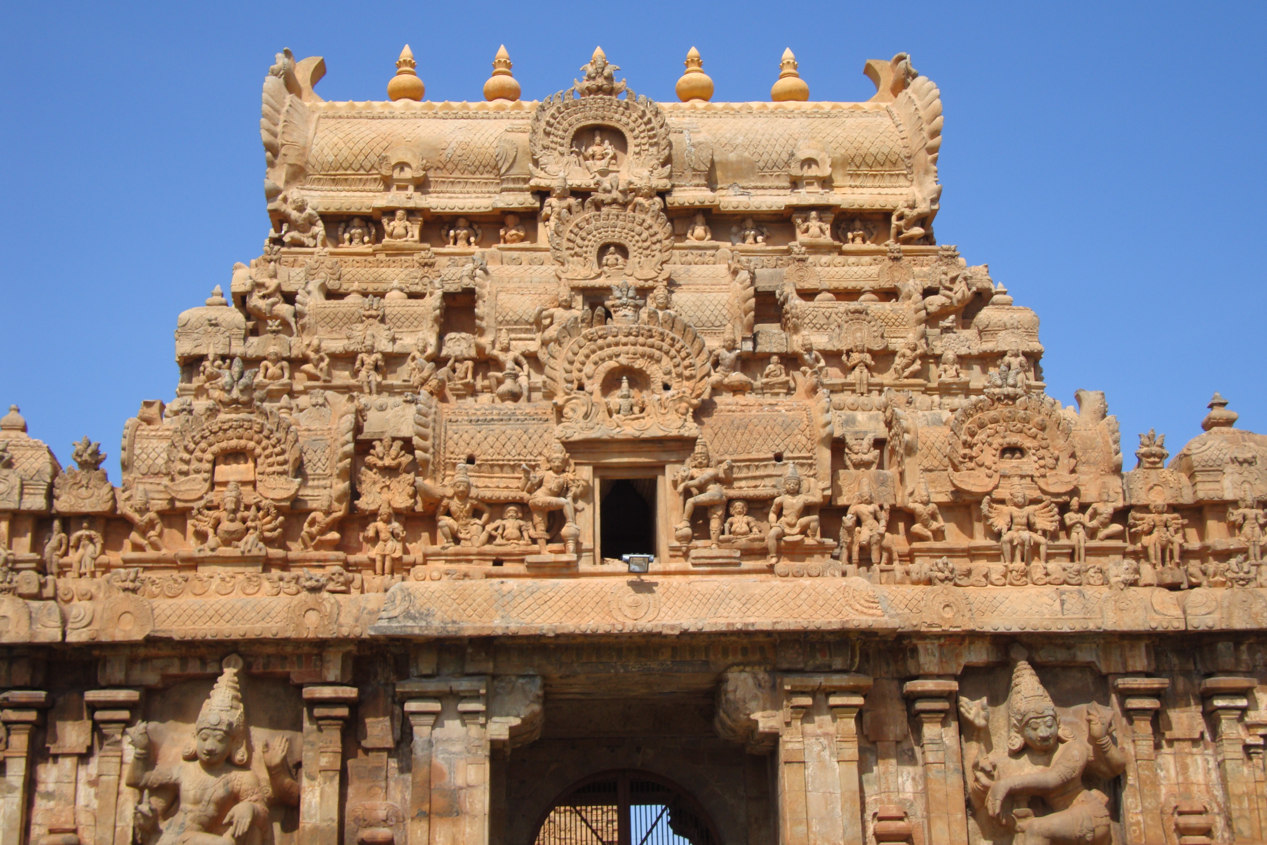 It shows the rich architecture & construction skills during the reign of King Raja Raja Cholan-I